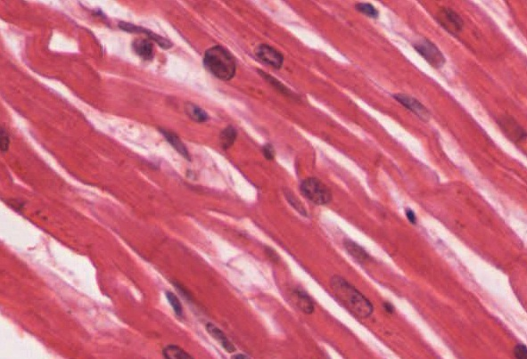 Cardiac muscle tissue is only found in the heart. LM × 1600. (Micrograph provided by the Regents of University of Michigan Medical School © 2012)